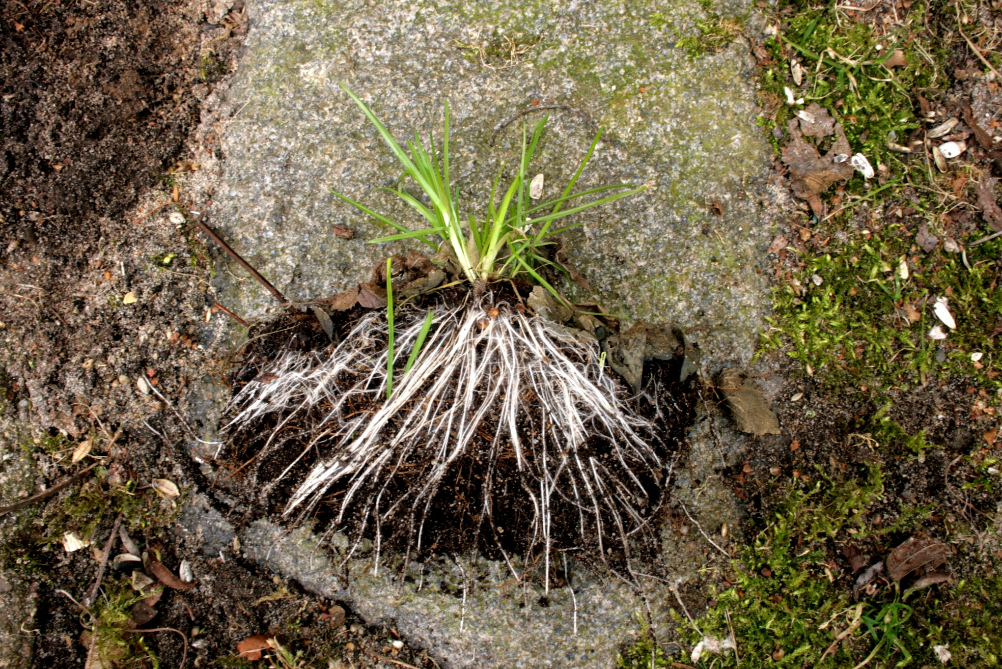 Poa annua: Root growth at +5° C